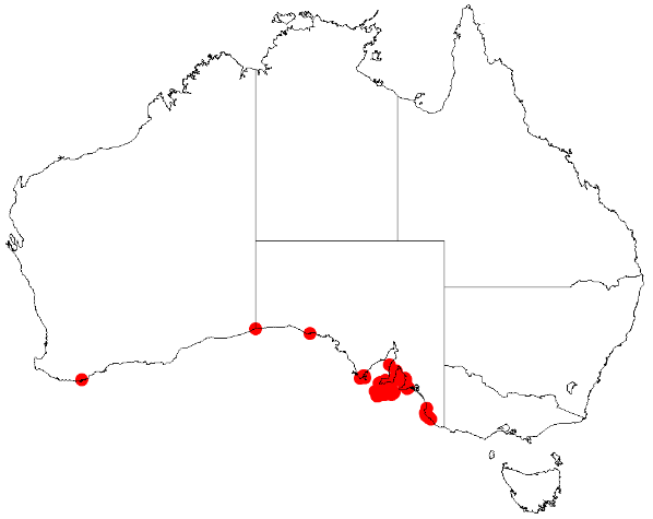 Scaevola angustata Occurrence data downloaded from Australasian Virtual Herbarium on 12 May 2019